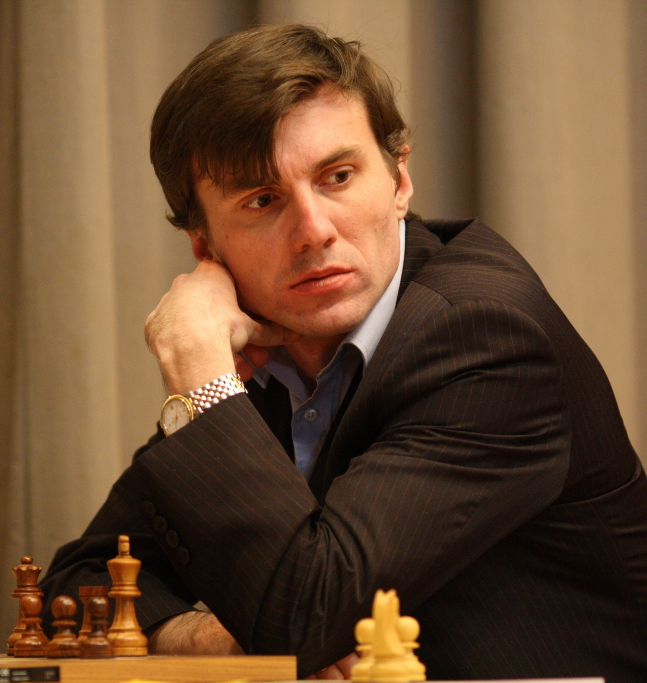 GM Vadim Malakhatko Belgium, 13. Int. Neckar-Open 2009